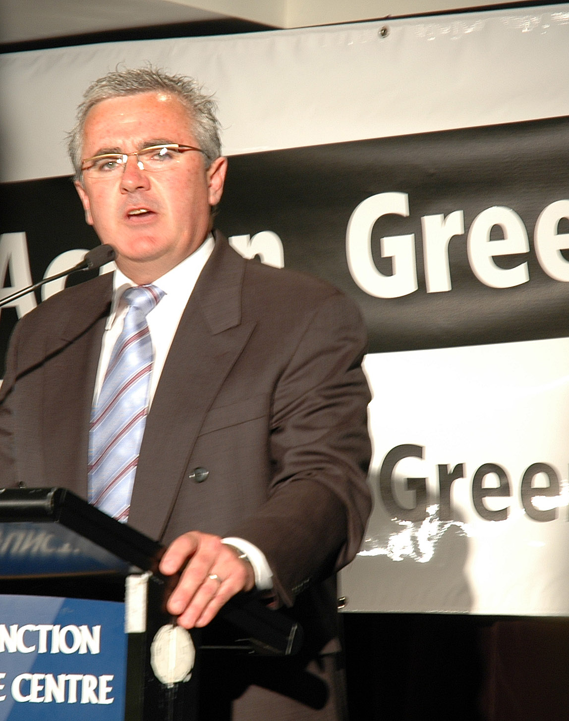 Andrew Wilkie speaking at the Greens federal election launch 2007 in Hobart